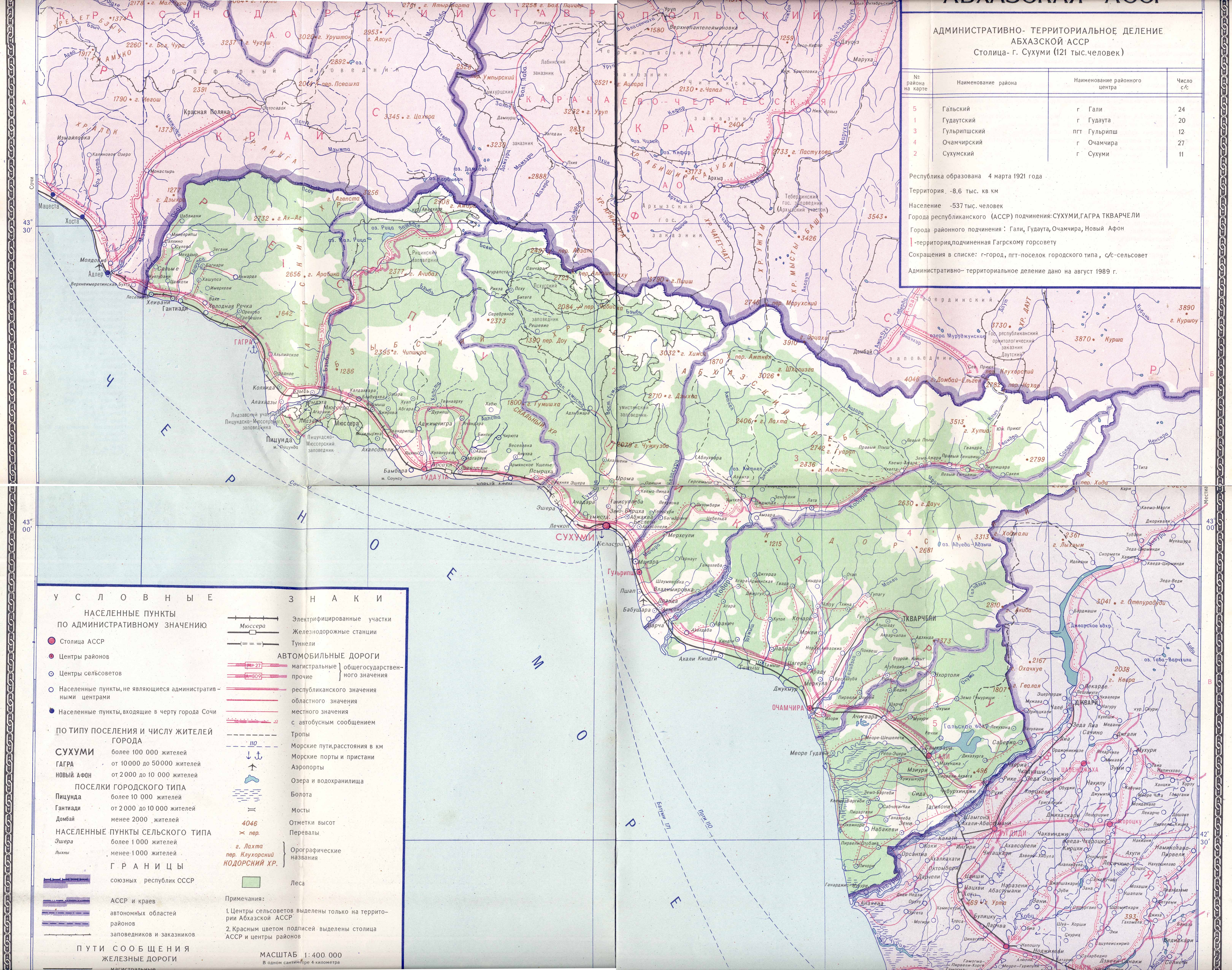 Map of Abkhazian ASSR(Georgian SSR)in 1989 year